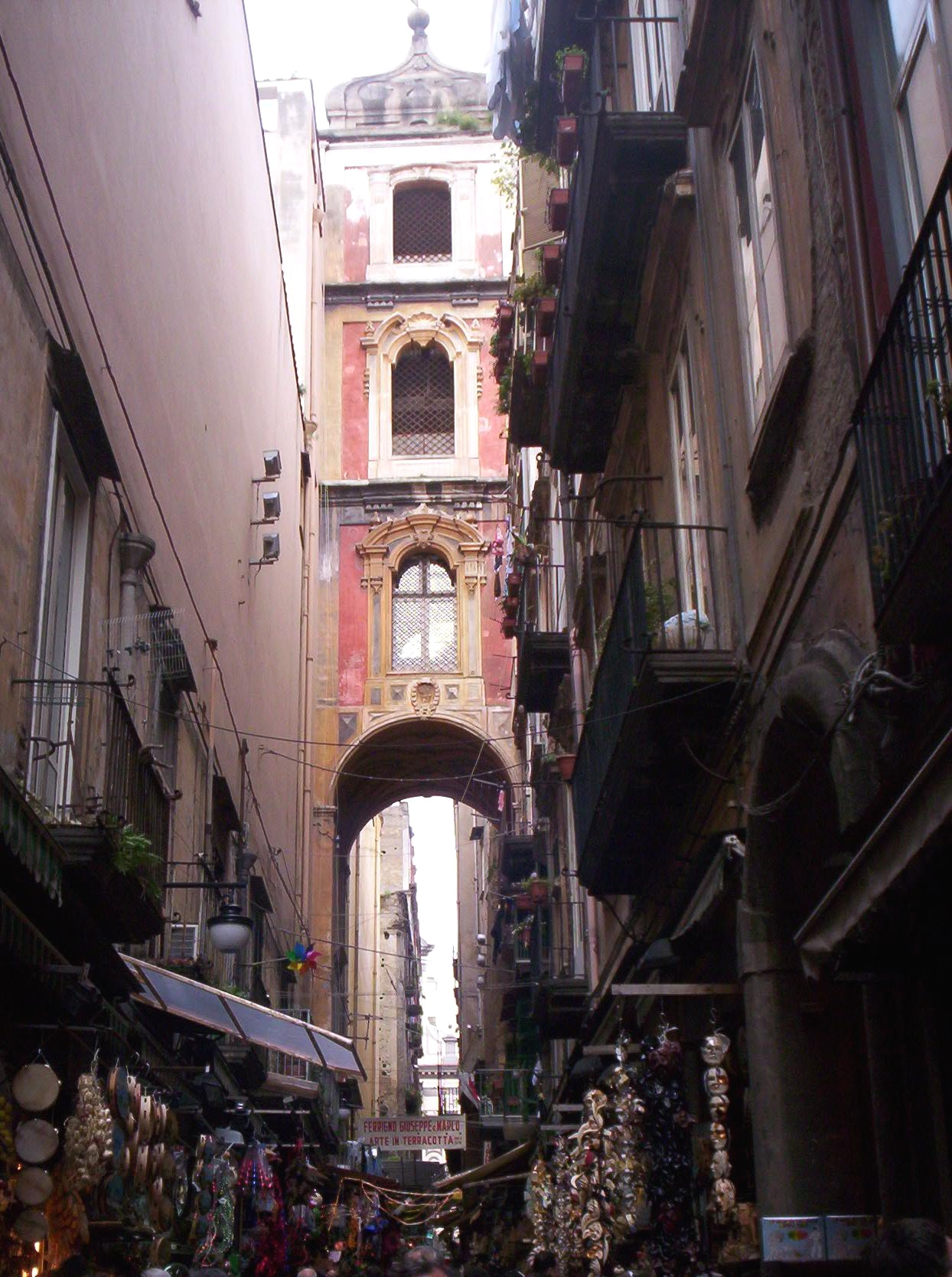 created 14 December 2005